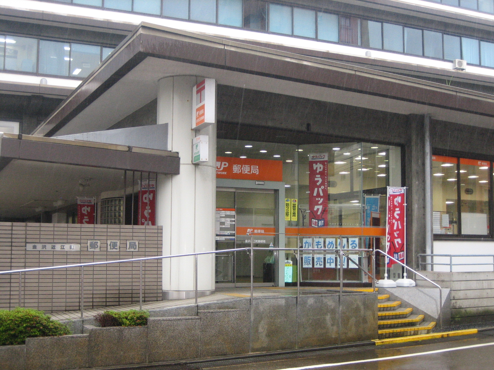 Kanazawa-omicho post office